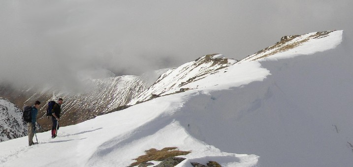 Summit ridge of sgurr choinnich, taken easter 2004